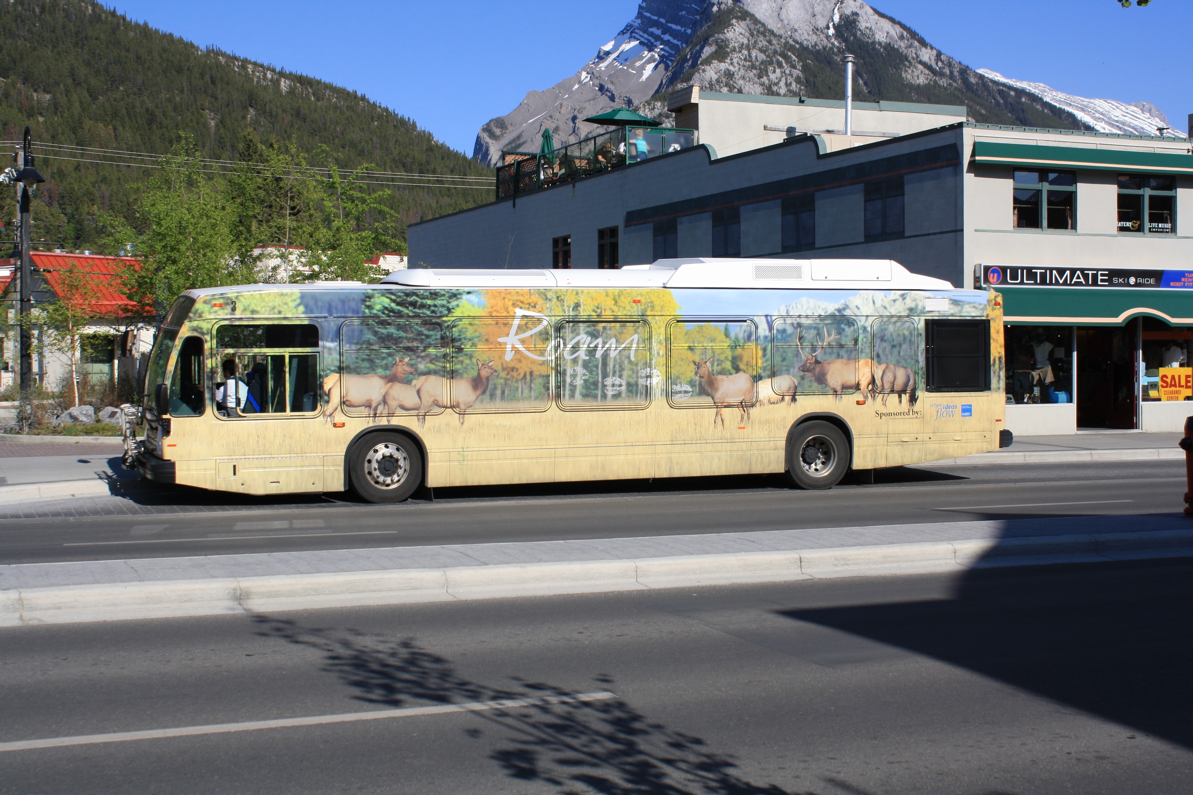 Banff Tour Bus I thought this was a pretty cool bus found in Banff, AB when we traveled through. It fits the landscape and terrain quite nicely with its colours.